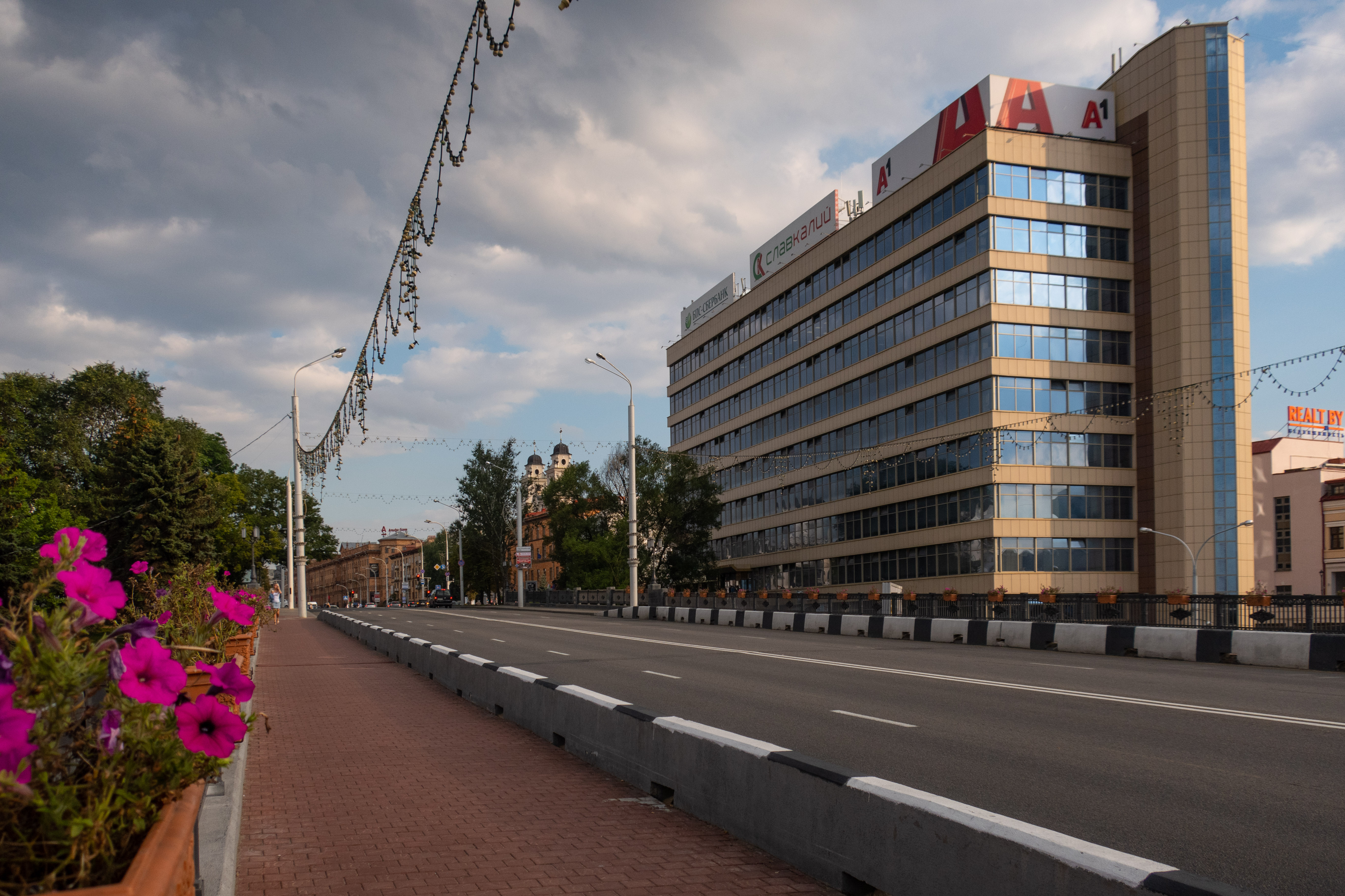 Lienina street. Minsk, Belarus